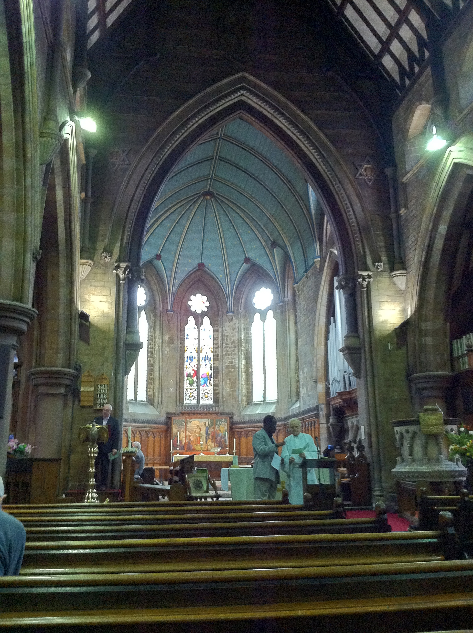 All Saints' Church, Raleigh Street, Nottingham